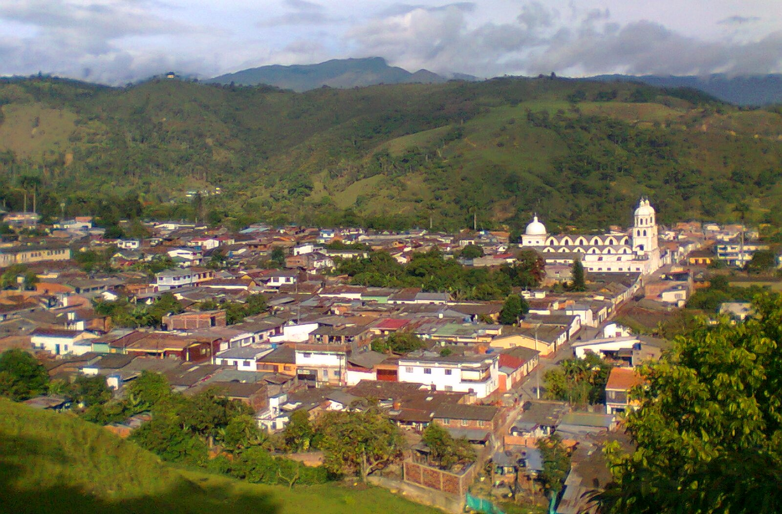 Chinácota is a small town and municipality located in the Department of Norte de Santander in Colombia, South America.